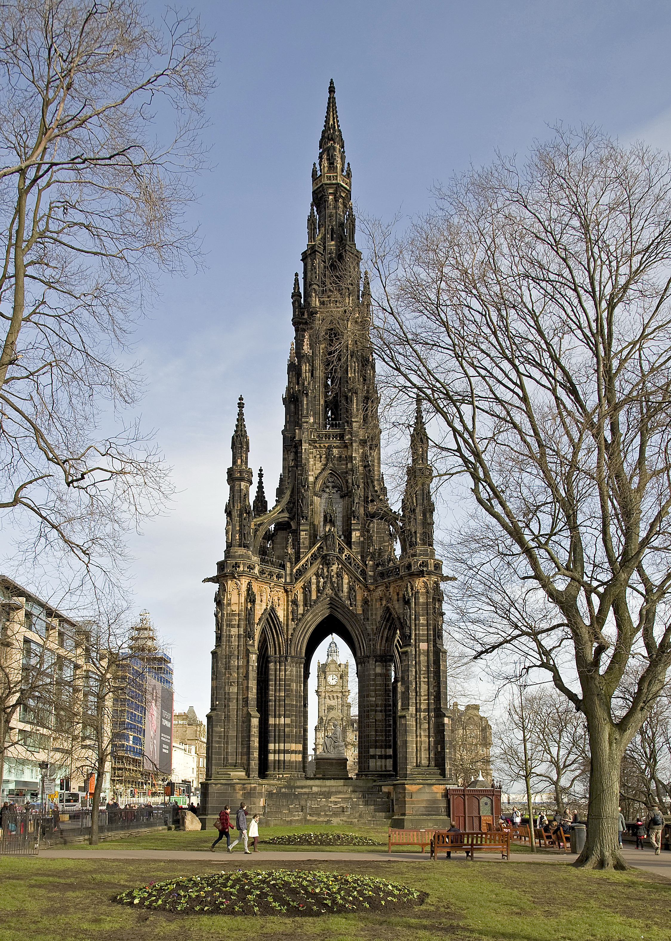 The Scott Monument in honour of Scottish author Sir Walter Scott. Viewed here from Princes Street Gardens in Edinburgh. The tower is 200 feet 6 inches (61.11 m) high and is constructed primarily of sandstone.